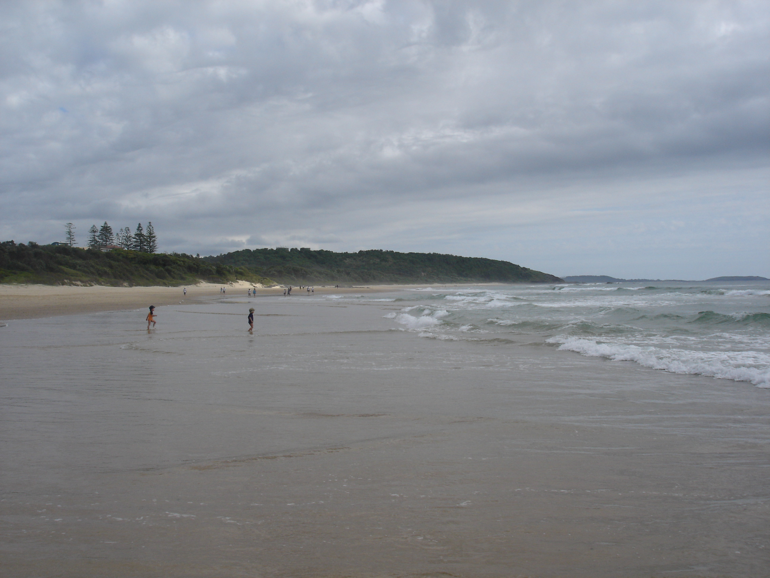 View up Sawtell's beach to the northern end of the beach.